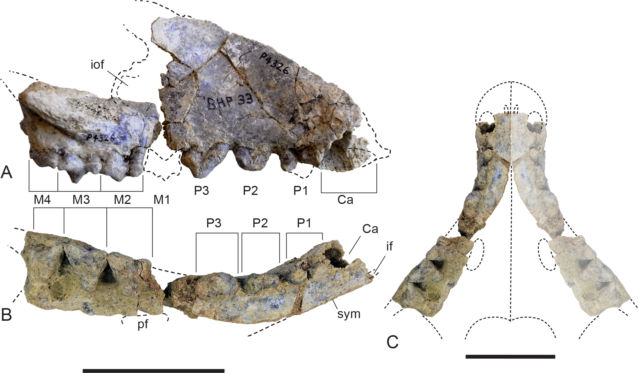 Thylacinus potens. NTM P4326, right maxilla. (A) lateral view, (B) ventral view, (C) reconstruction of palate by mirror imaging the right side. Abbreviations: Ca, canine alveolus; if, incisive foramen; iof, infraorbital foramen; M1–4, molars 1–4; P1–3, premolars 1–3; pf, palatine fenestra; sym, symphyseal surface. Scale bars = 50 mm.